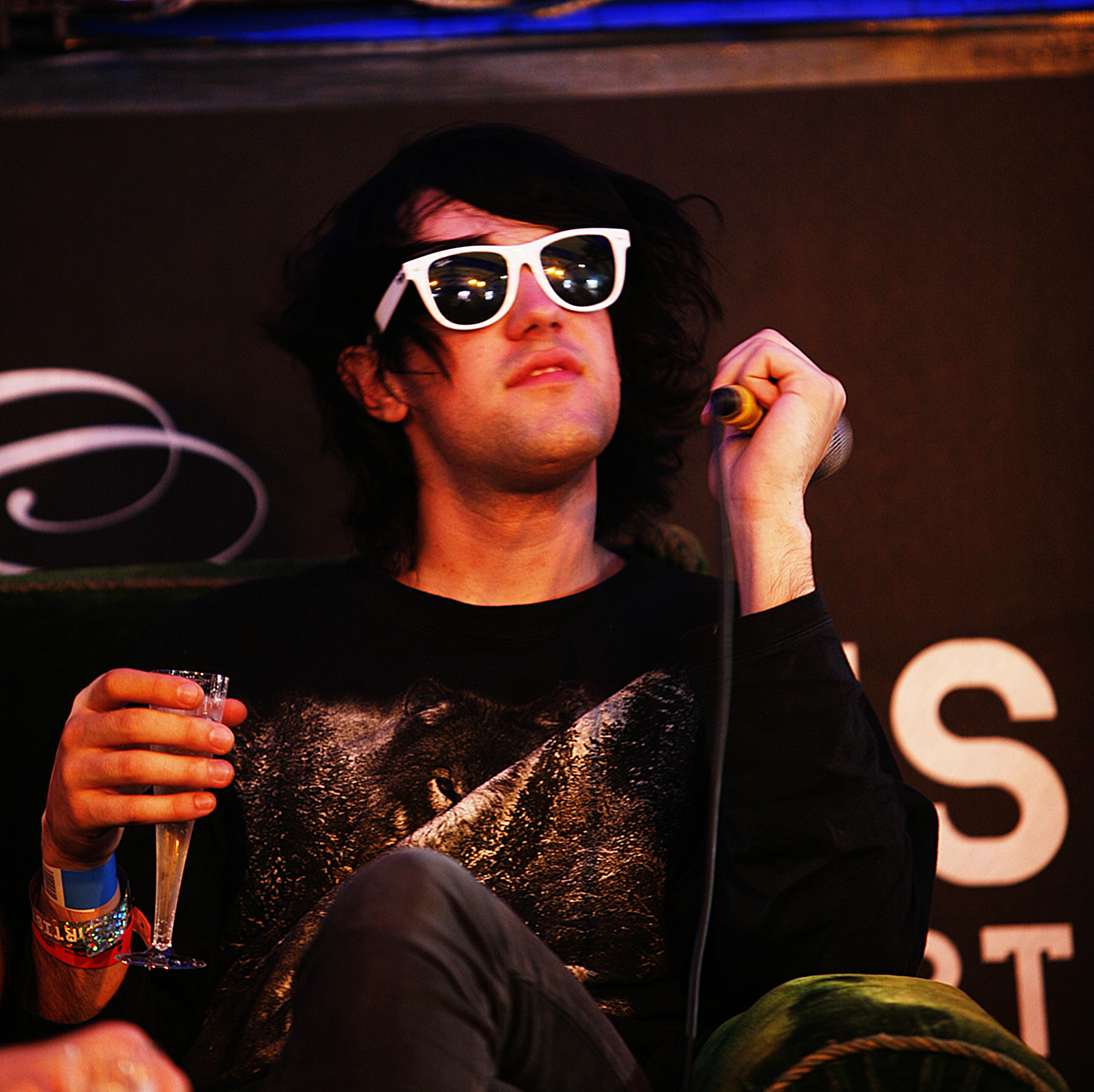 Klaxons at the Eurockéennes of 2007